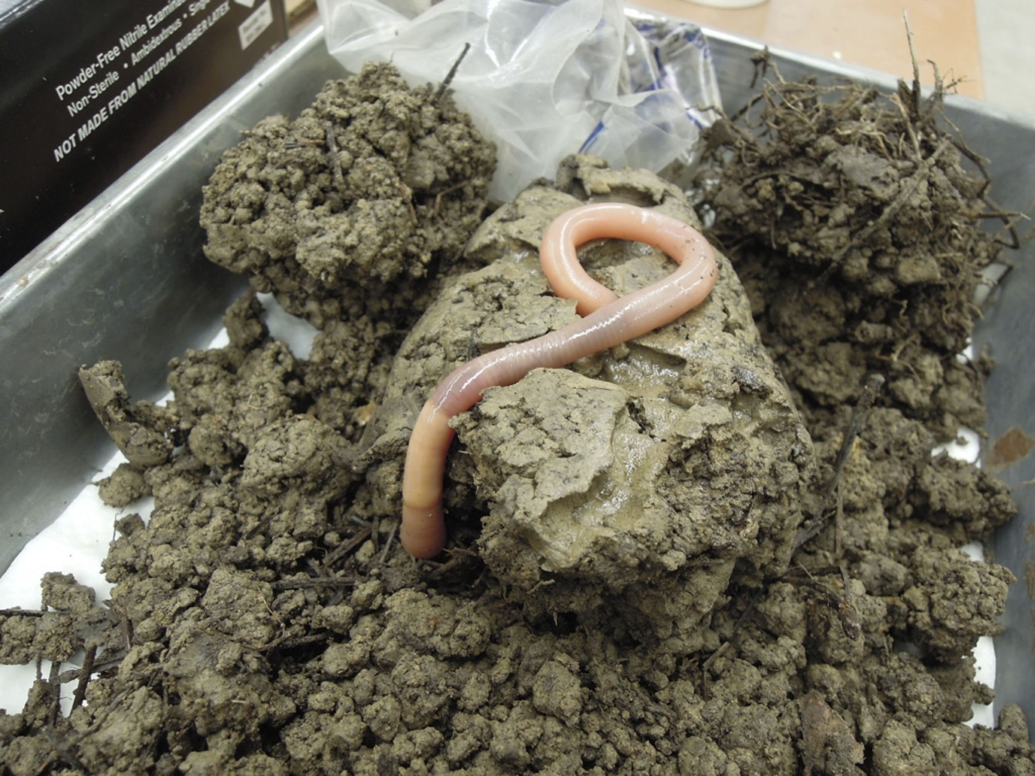 An adult specimen of Driloleirus americanus, or Giant Palouse earthworm, an Annelid originating from east Washington.